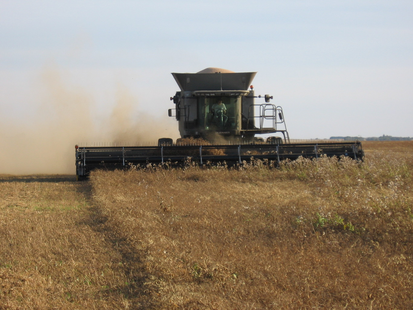 An AGCO Gleaner A85 combine harvesting yellow peas (Lathyrus aphaca) in Saskatchewan, Canada